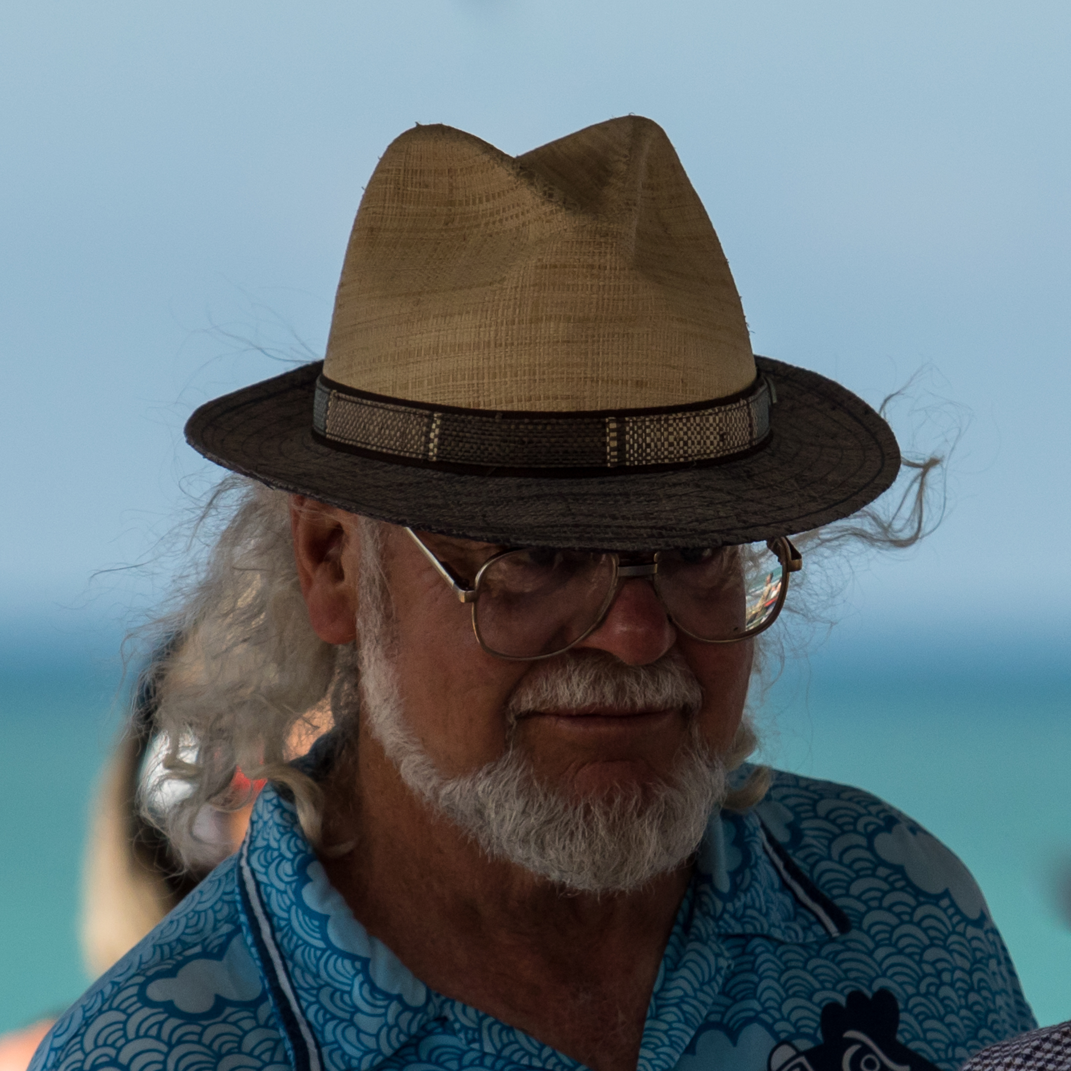 This event, the Coast to Coast was created by Robin Judkins in 1983 as a multi-sport race (running, cycling, kayaking) from Kumara Beach on the West Coast to Sumner Beach on the east cost, but last year the finish was shifted to New Brighton due to less major intersections on the new route.